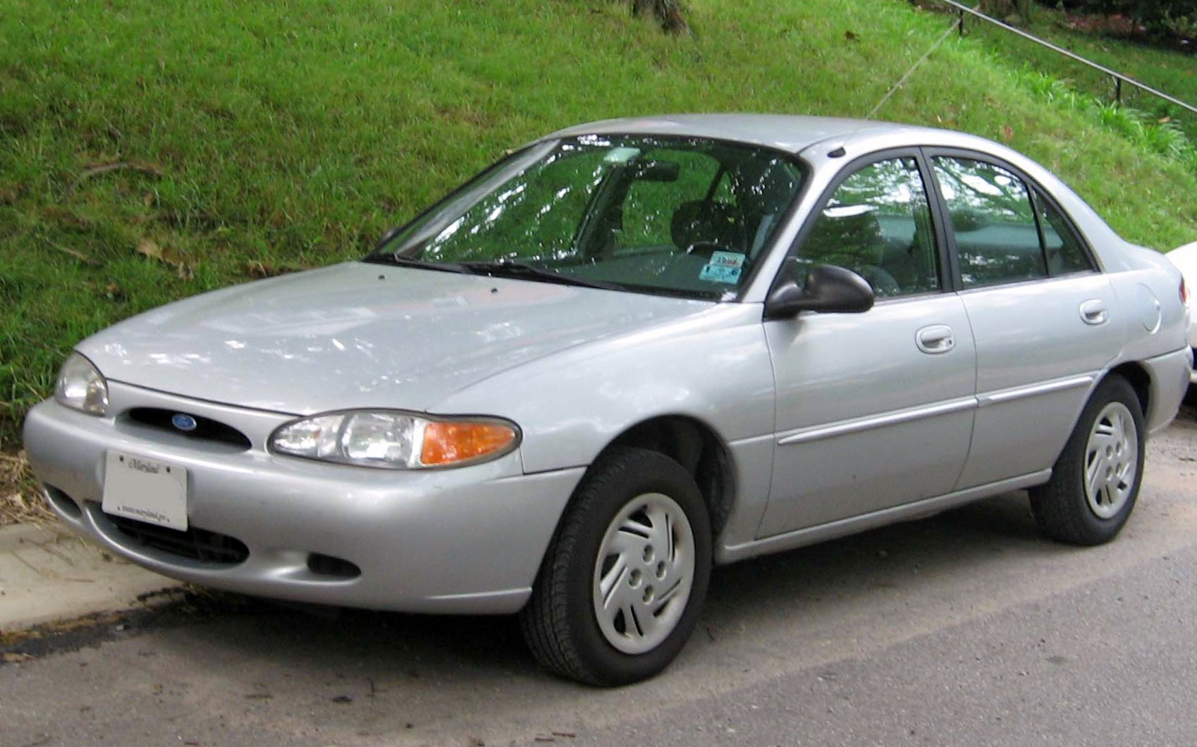 1997-2002 Ford Escort photographed in USA.